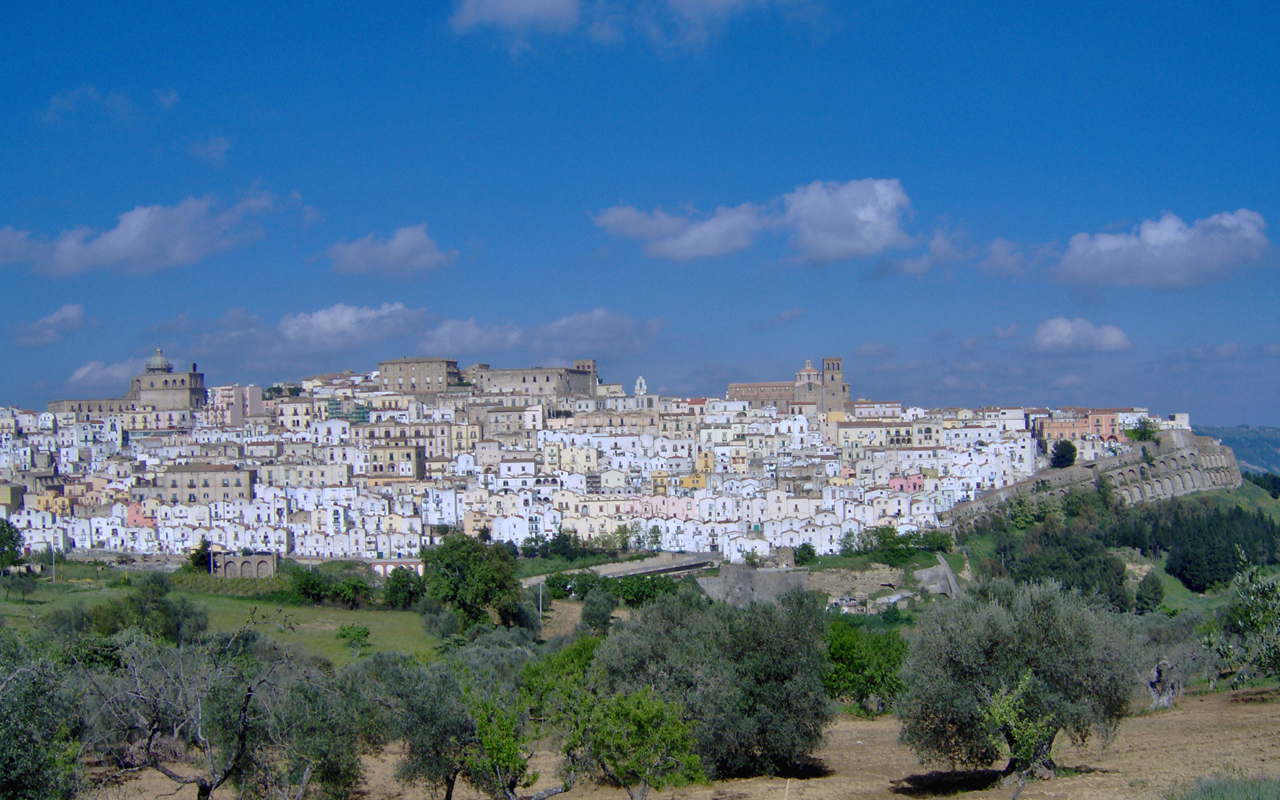 View of Ferrandina, province of Matera, Italy